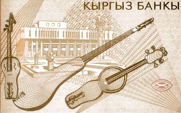 whole of a Kyrgyz one Som note A scan of part of the reverse of a Kyrgyz one Som note (low resolution to prevent possible forgery!) showing traditional Kyrgyz musical instruments including a komuz (centre) and (I think) a kyyak (right). This scan is in the Public Domain. (The copyright of the banknote artwork obviously belongs to the Treasury and Government of the Kyrgyz republic, Kyrgyzstan) SiGarb 23:29, 20 November 2005 (UTC)